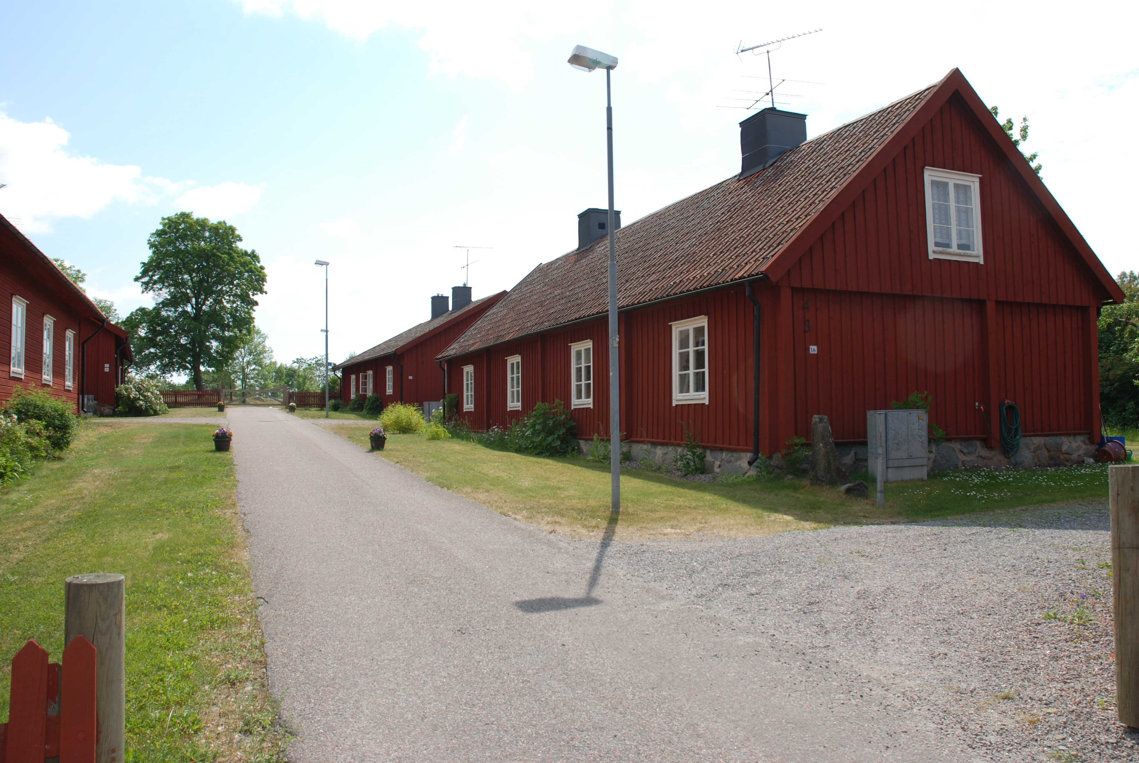 Bruksgatan (Iron Works Lane), Edsbro, Uppland, Sverige